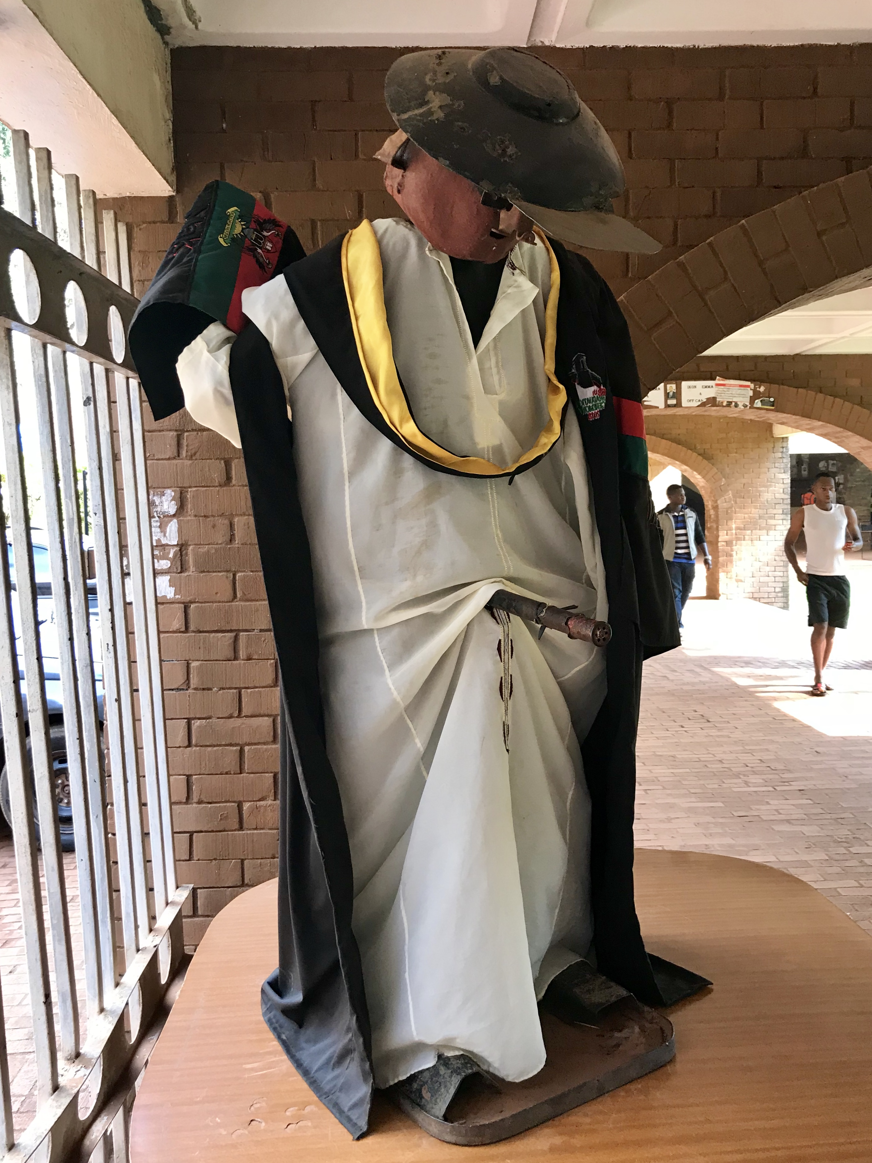 Shortly after Lumumba boys residency hall at Makerere University was opened in 1971, Idi Amin’s Soldiers invaded the neighboring ladies hall, Mary Stuart. Lumumba students who up to now call themselves elephants fought back to repulse the soldiers. It’s from here that a one Gongom lost his life and a monument was erected in his honor. The Gongom monument welded from iron is addressed as His Majesty, Highness and dressed in an attire (a graduate gown). This attire inspires students to read and work hard but is also a symbol of Unity.